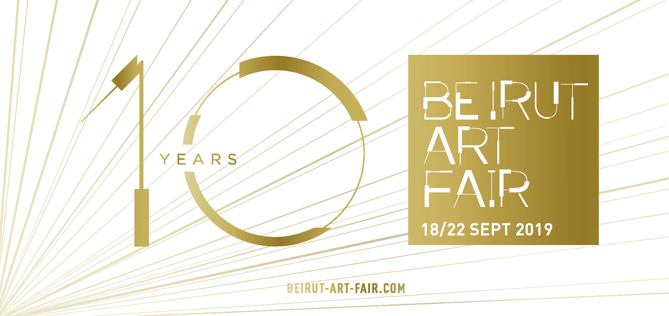 Logo of 10th Anniversary